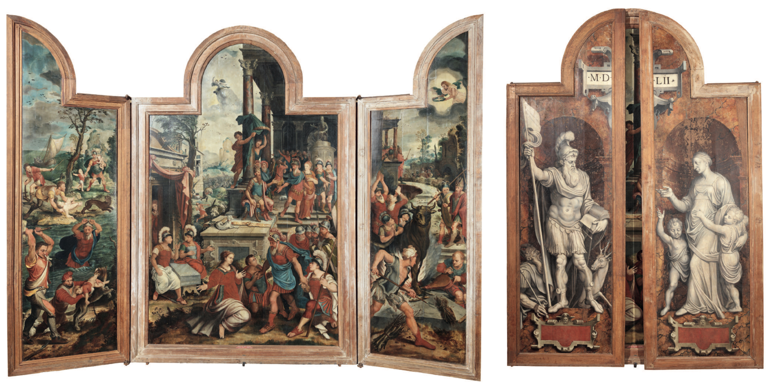 Jan Mandijn, Drieluik met scènes uit het leven van de heilige Eustachius, 1552. Scherpenheuvel-Zichem, Sint-Eustachiuskerk. Het stadsbestuur van Zichem besteedde het werk aan in 1550.